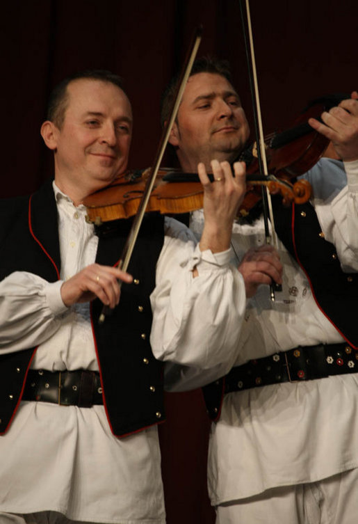 Traditional Croatian musicians play during the viewing by Mrs. Laura Bush of a dance ensemble performance, Saturday, April 5, 2008 in Zagreb.